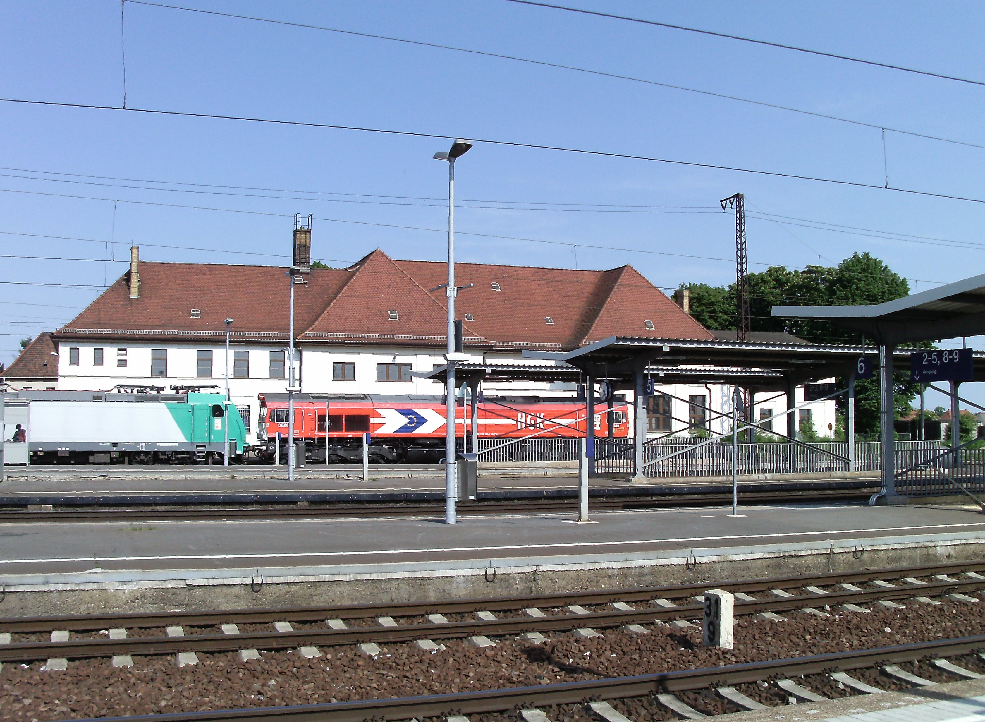 Grosskorbetha train station (Weissenfels, district of Burgenlandkreis, Saxony-Anhalt)